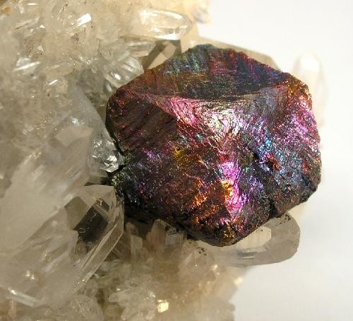 Bornite, Chalcopyrite, Pyrite, Quartz Locality: Huaron Mining District, San Jose de Huayllay District, Cerro de Pasco, Daniel Alcides Carrión Province, Pasco Department, Peru (Locality at ) Size: 6 x 3.5 x 2.4 cm. A fine specimen comprised of a Bornite-coated Chalcopyrite crystal nestled in a bed of clear Quartz crystals and superb lustrous Pyrite crystals. The Bornite-coated crystal is up to 1.5 cm across. Ex. Charlie Key.